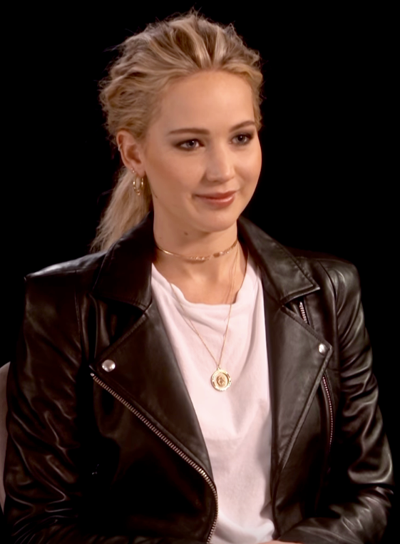 Jennifer Lawrence promoting Red Sparrow in 2018